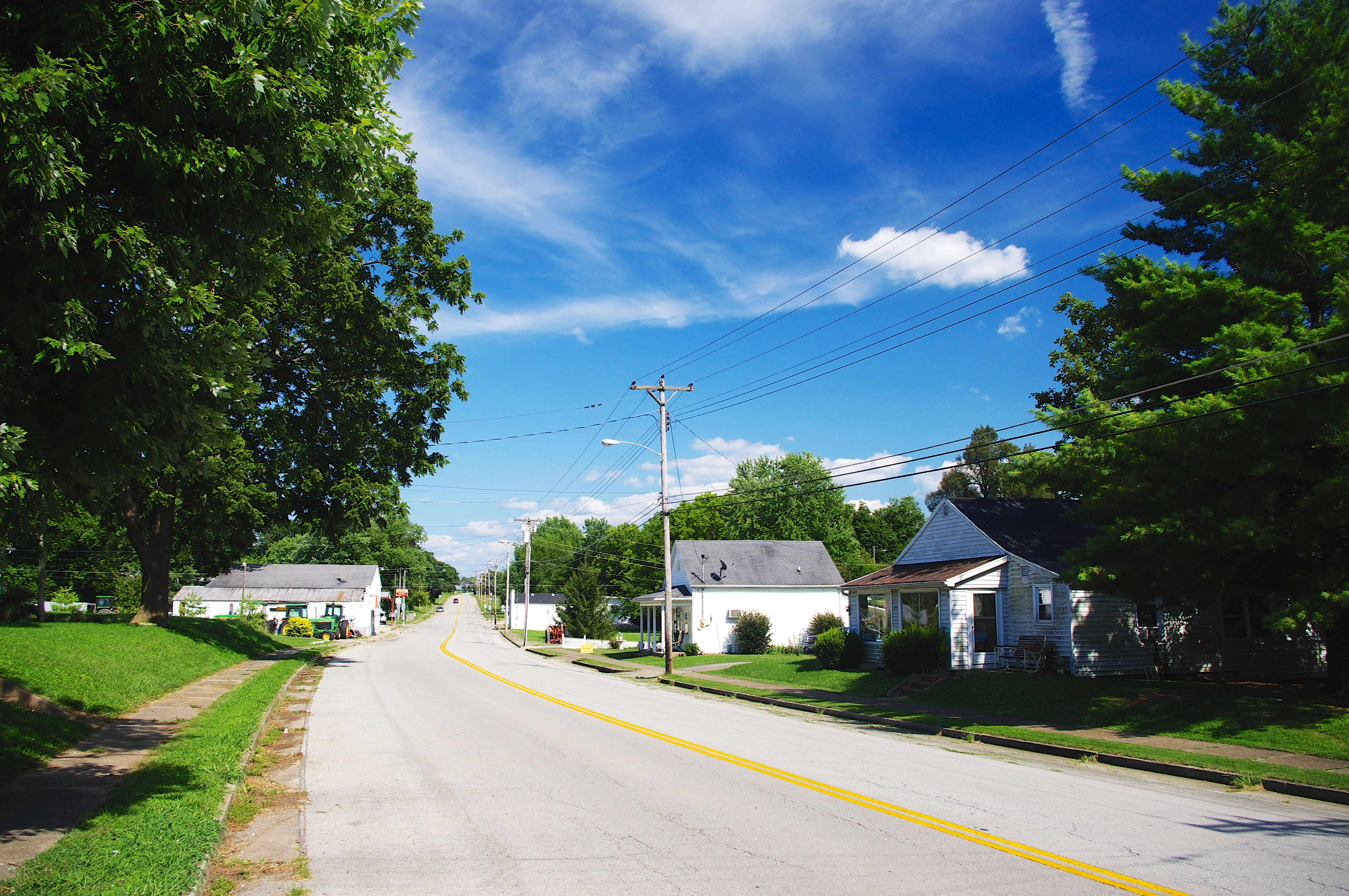 Main Street (Kentucky Route 48) in Fairfield, Kentucky, United States.